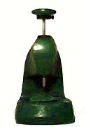 Fruit pitting machine